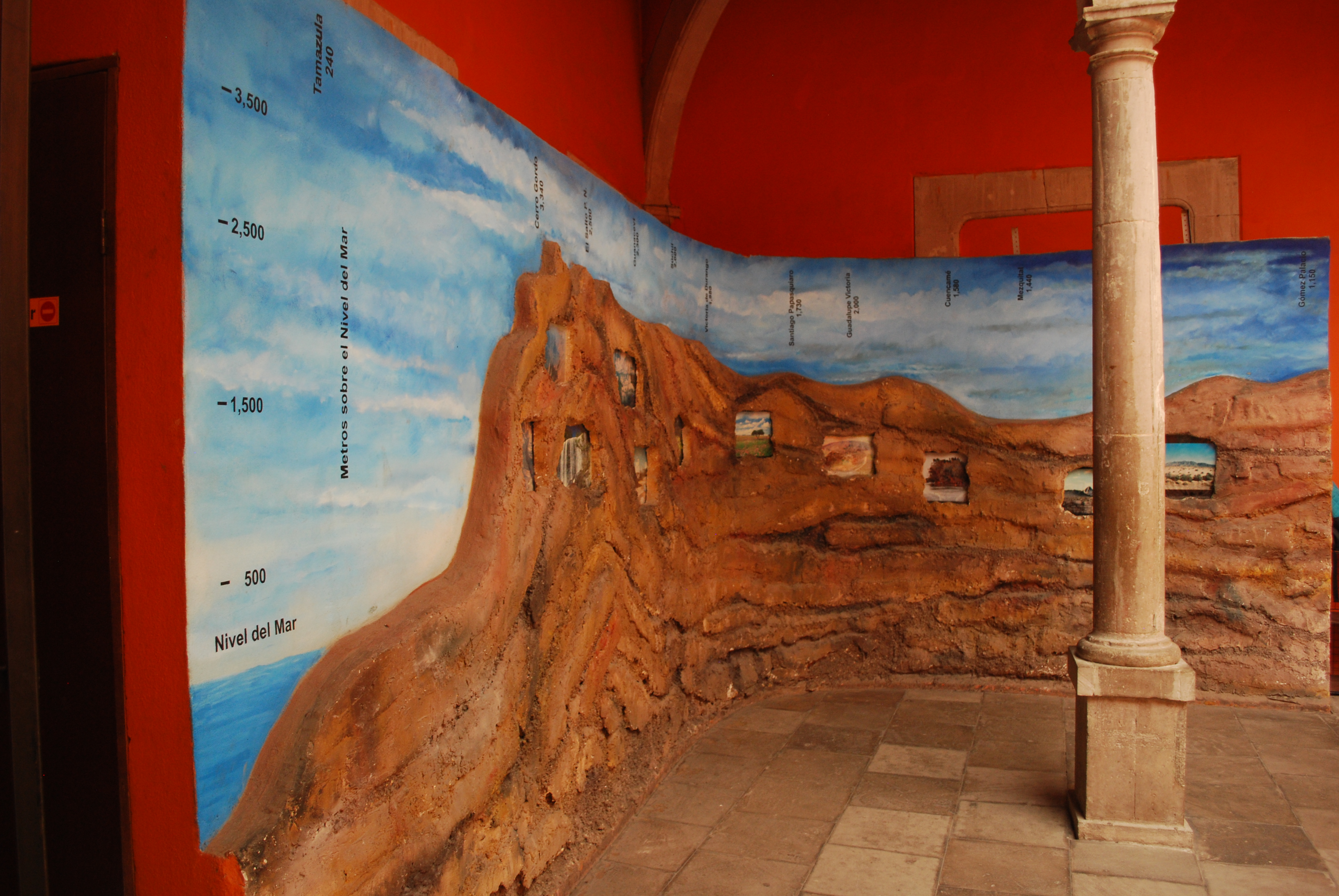 Mural depicting altitudes and settlemnts in the state of Durango at the Ganot-Peschard Archeology Musuem in Victoria de Durango, Mexico